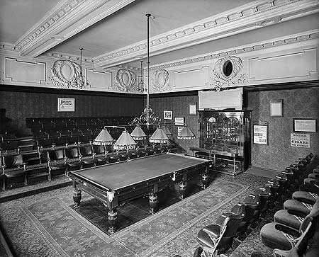 Match room at Thurston's Hall (later Leicester Square Hall, demolished 1956)